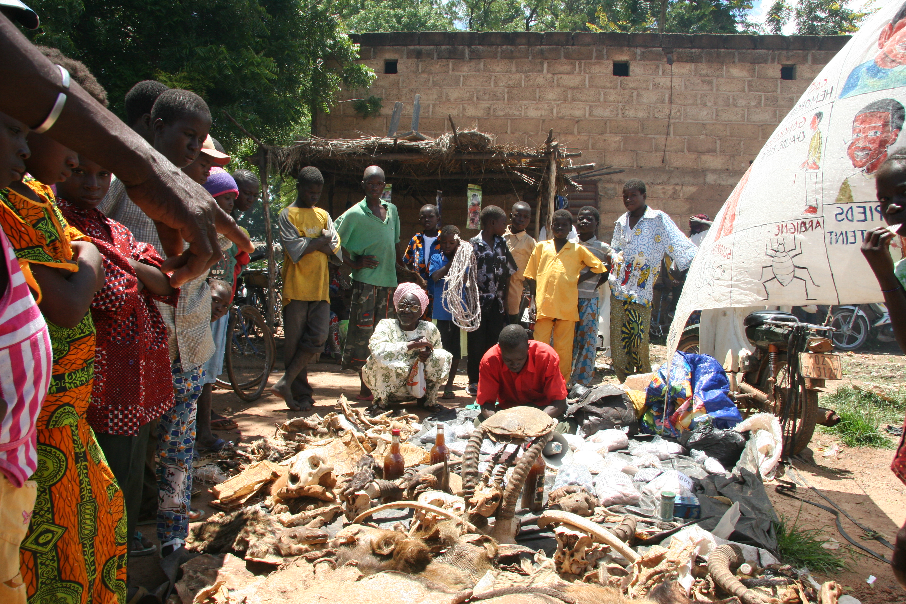 Traditional medicine in Ouagadougou